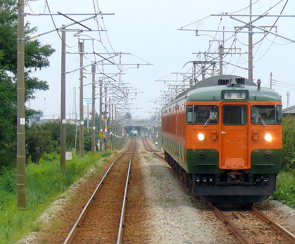 JR Ryōmō Line Double track section(Japan).